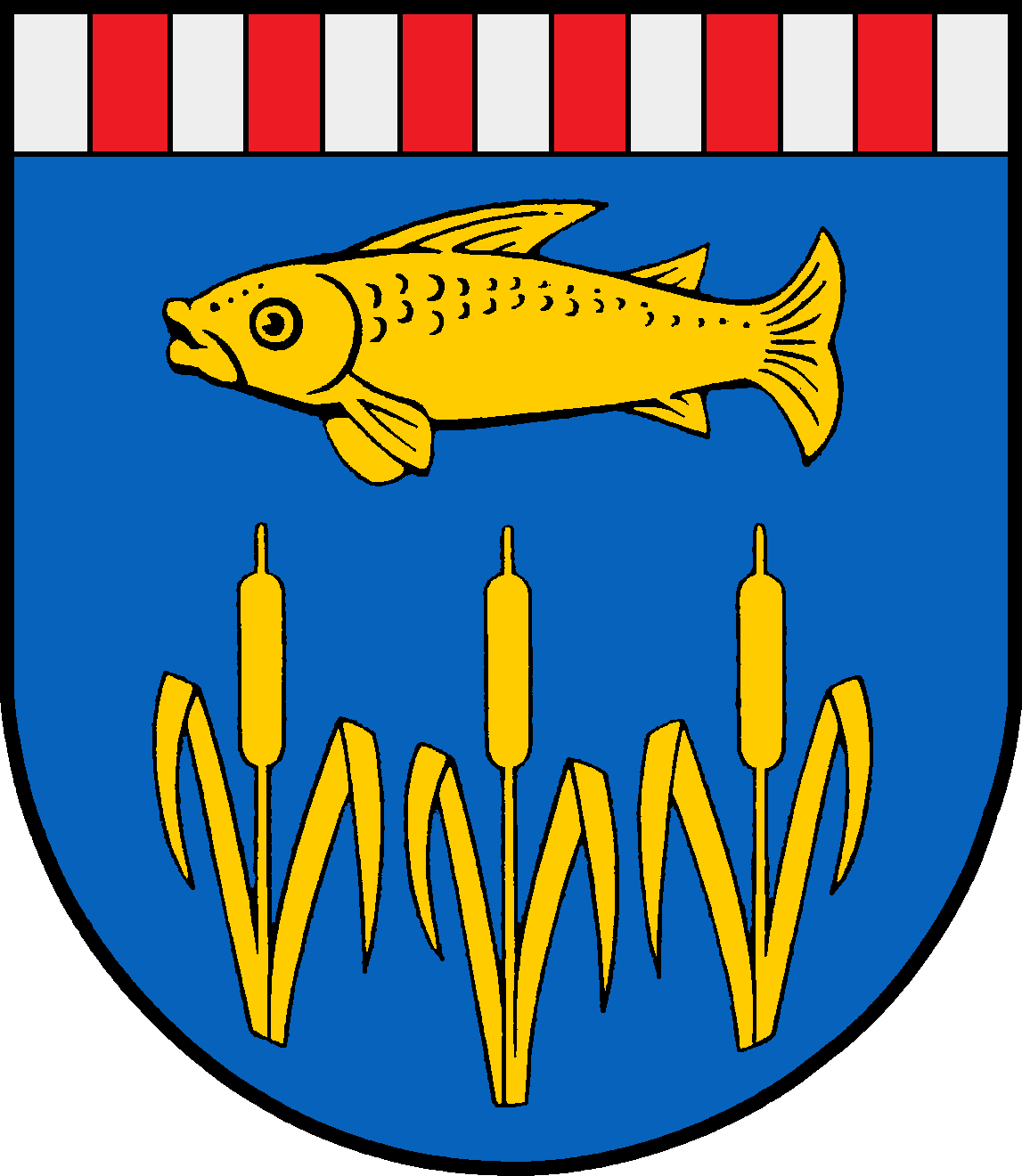 Coat of arms of the municipality Aventoft in Schleswig-Holstein, Germany.